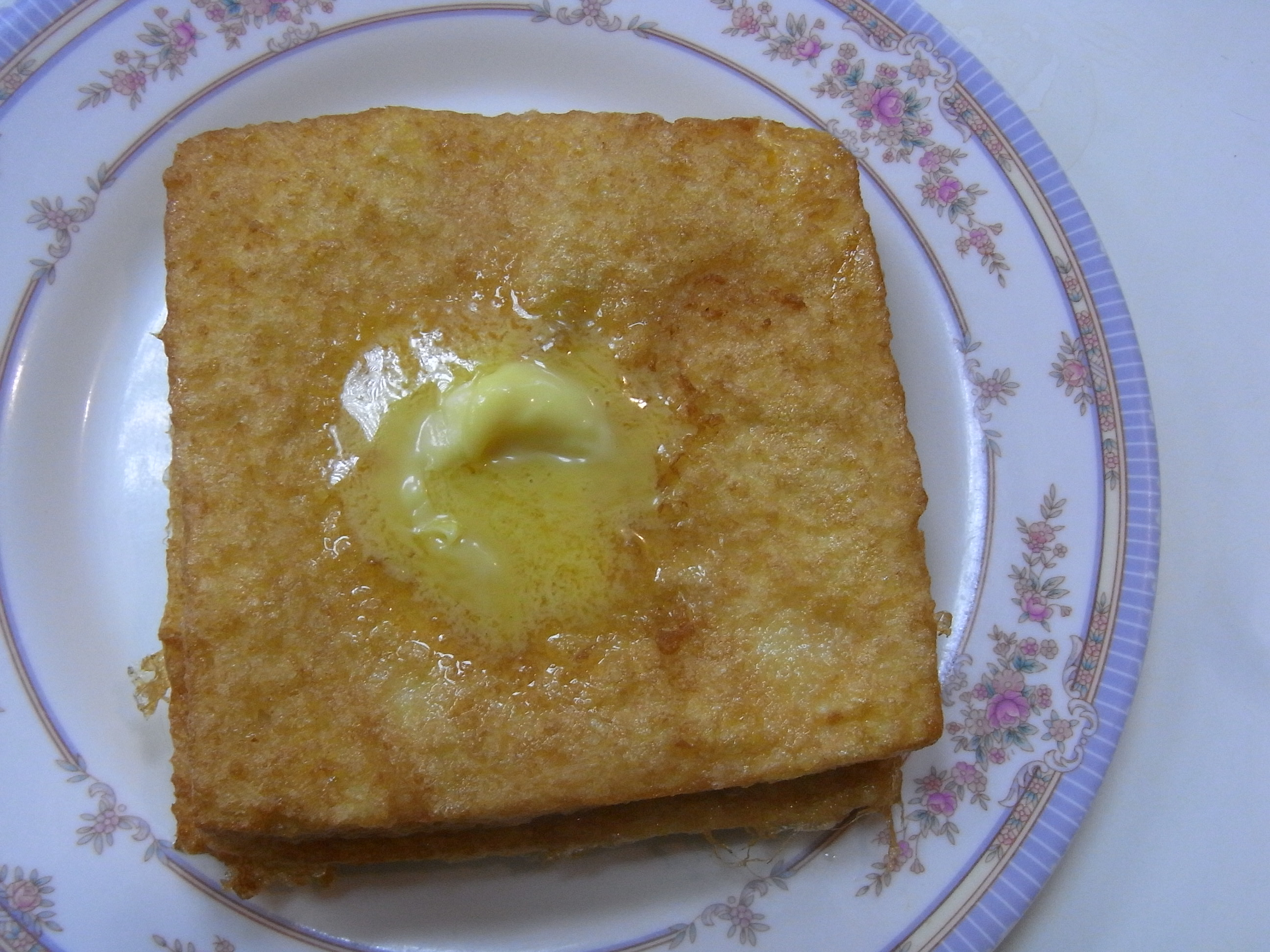 French Toast, Wing Lok Street, Sheung Wan, Hong Kong